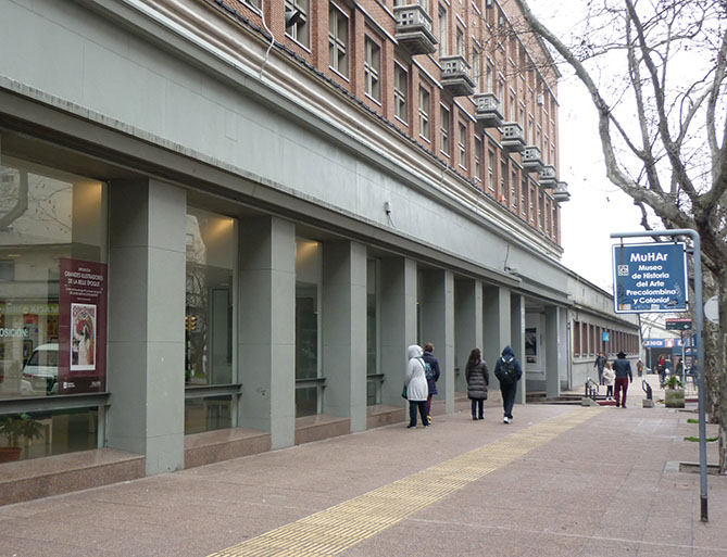 Museo de Historia del Arte, Montevideo, Uruguay